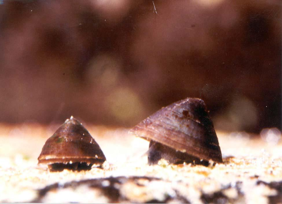 Banbury Springs Lanx (Lanx sp. undescribed)